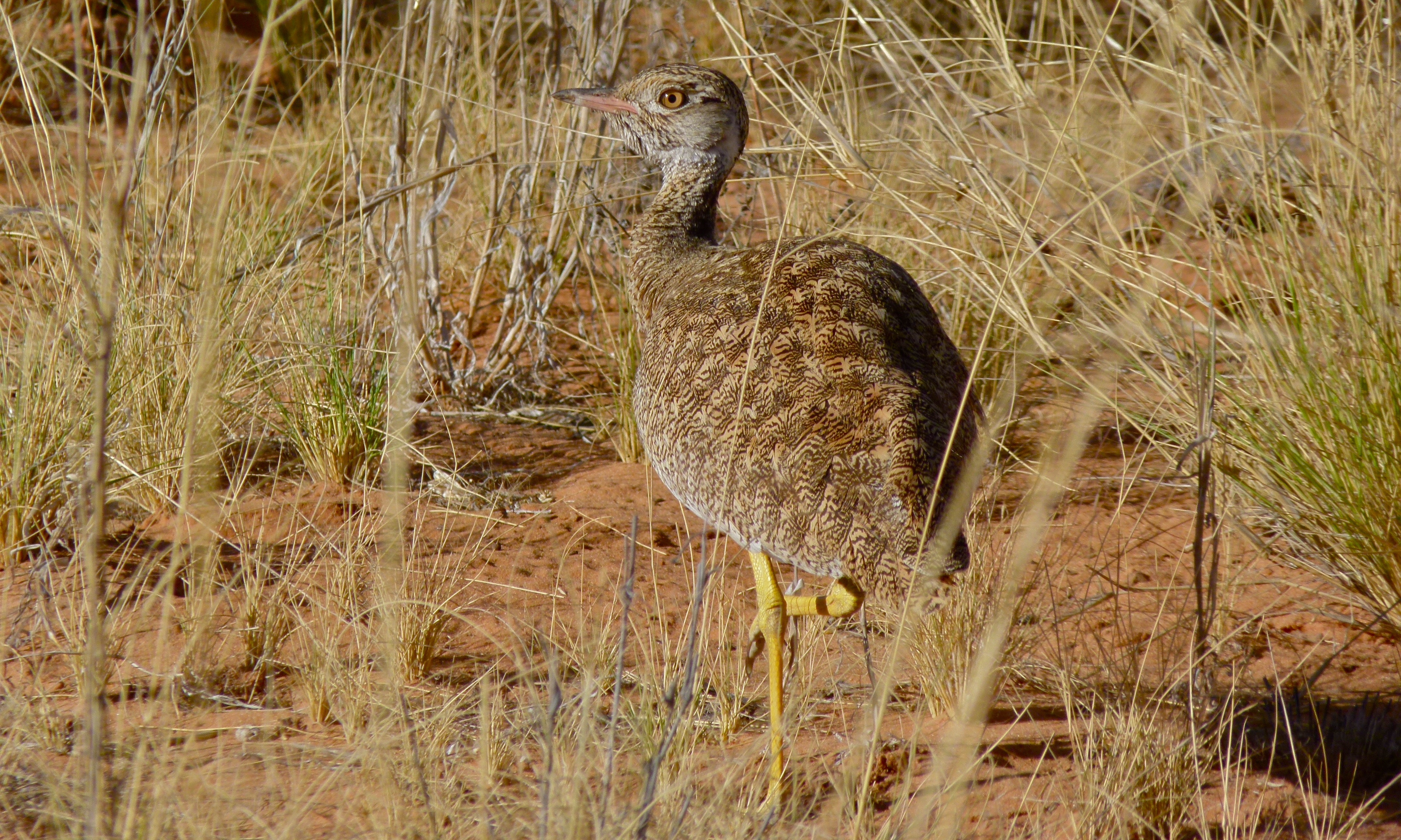 Northern black korhaan female at Short Dune Road, Kgalagadi Transfrontier Park, SOUTH AFRICA